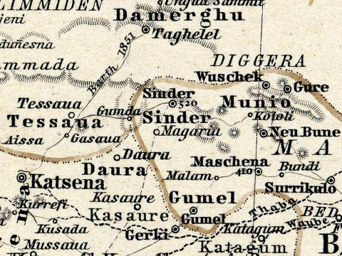 Magaria in Adolf Stielers Handatlas, 1891.